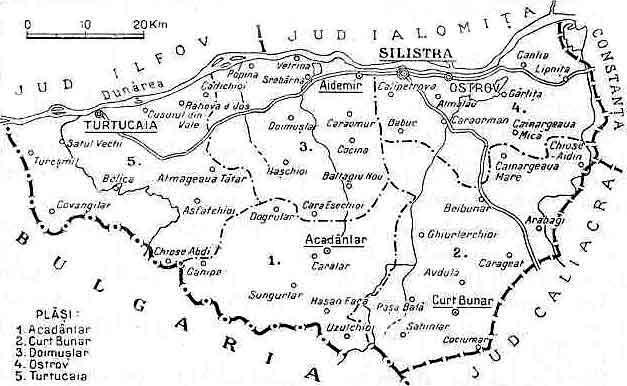 Map of Durostor interwar county, Kingdom of Romania (1938).